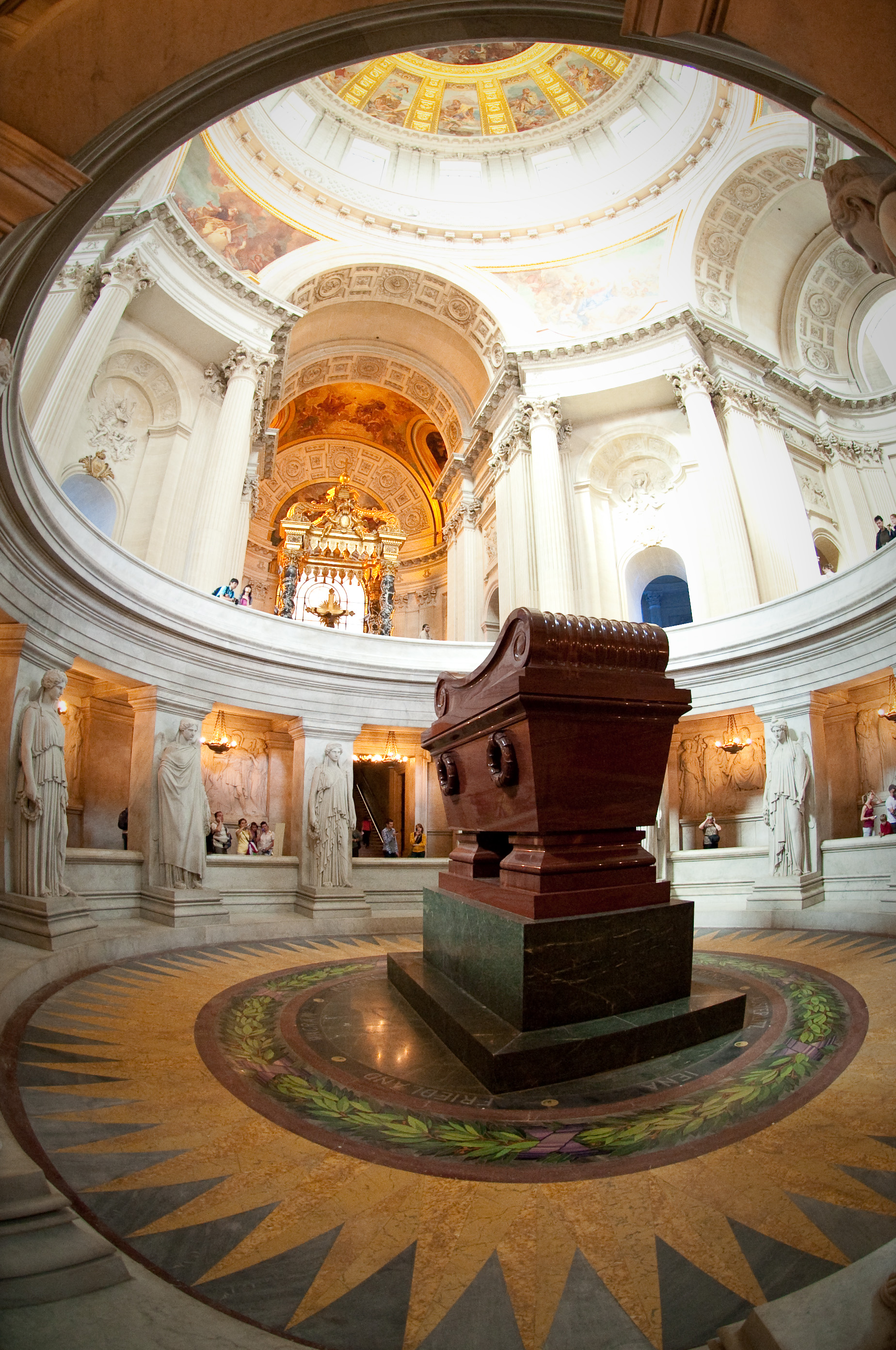 Napoleon's Tomb - Paris, FR